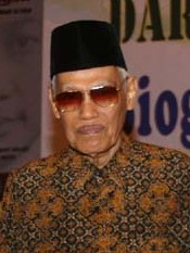 Portrait of Kyai Hajji Ali Yafie